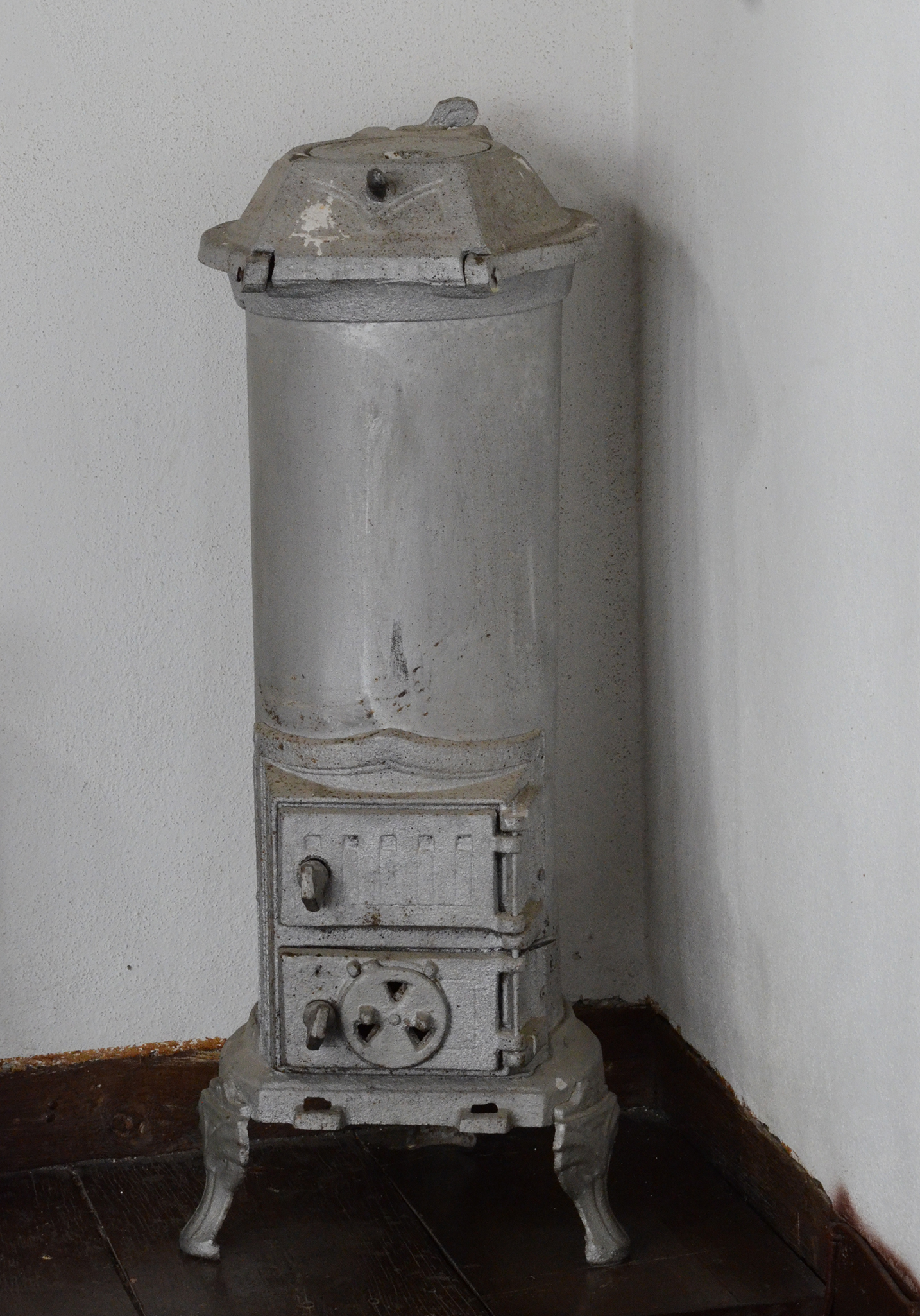 An old fashion coal stove exhibited in Arıkan House. Kozan - Adana, Turkey.